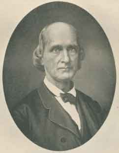 Kentucky Congressman Landaff Andrews